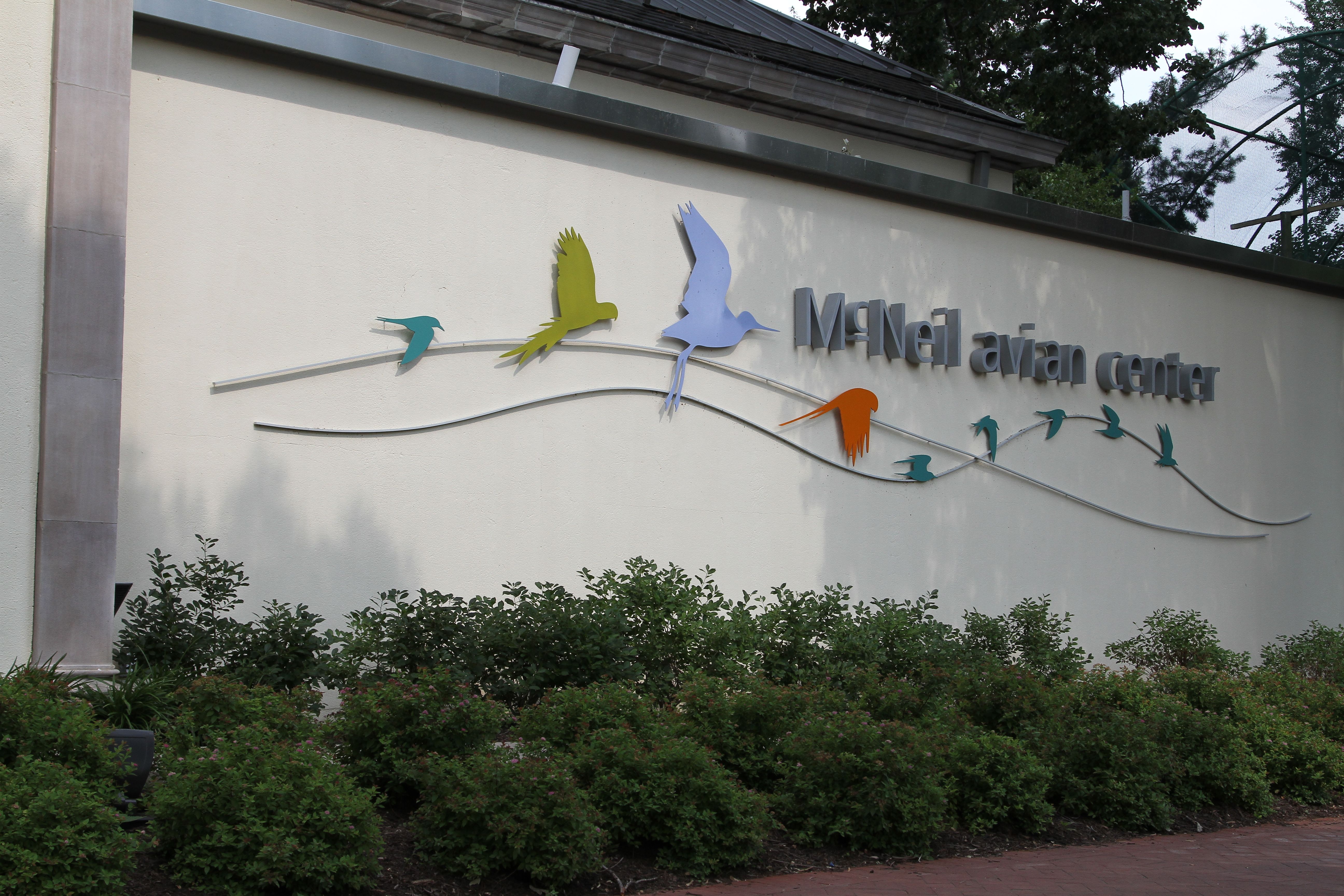 McNeil Avian Center at Philadelphia Zoo, Pennsylvania, USA.